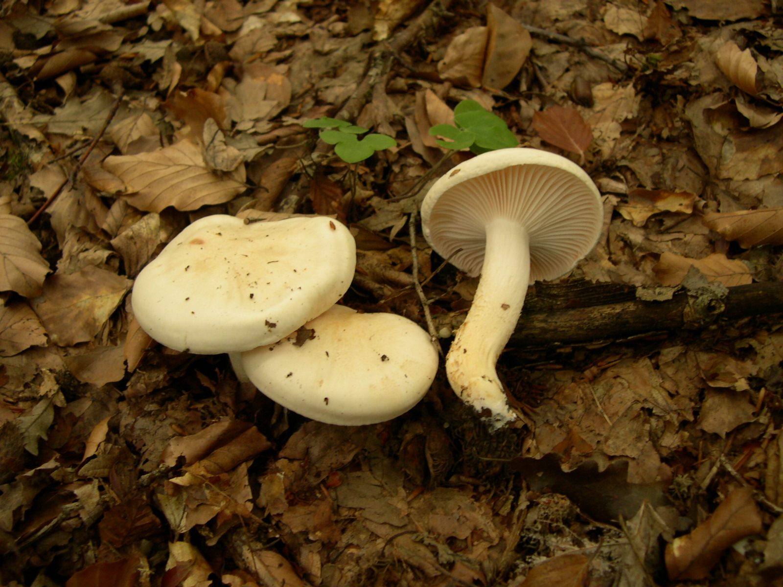 Hygrophorus penarius. Fr. September 2005 - Piacenza's mountains - Italy by Archenzo